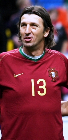 Dimas Teixeira — Portuguese footballer.